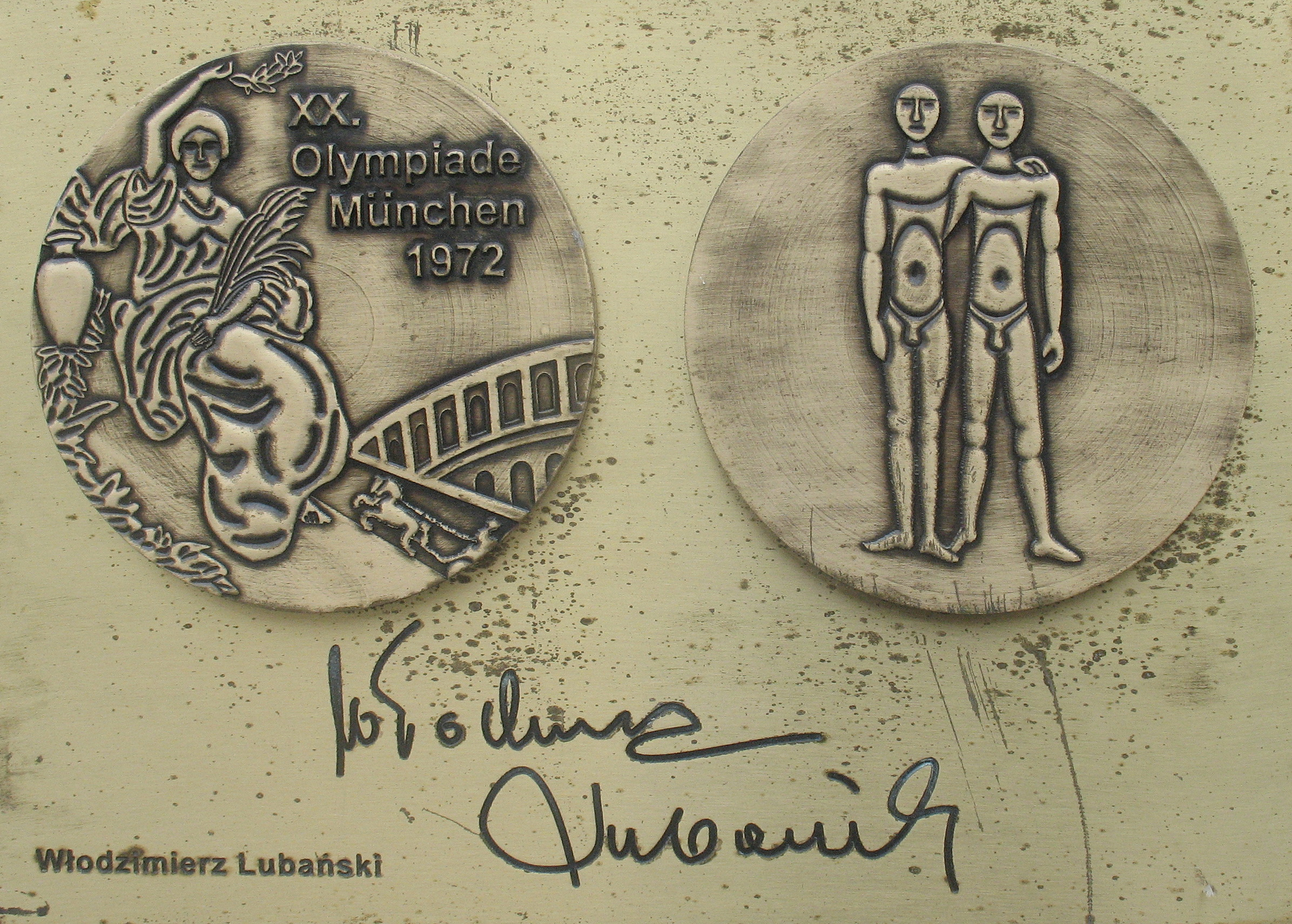 Włodzimierz Lubanski medal & autograph in Avenue of Sport Stars Dziwnów